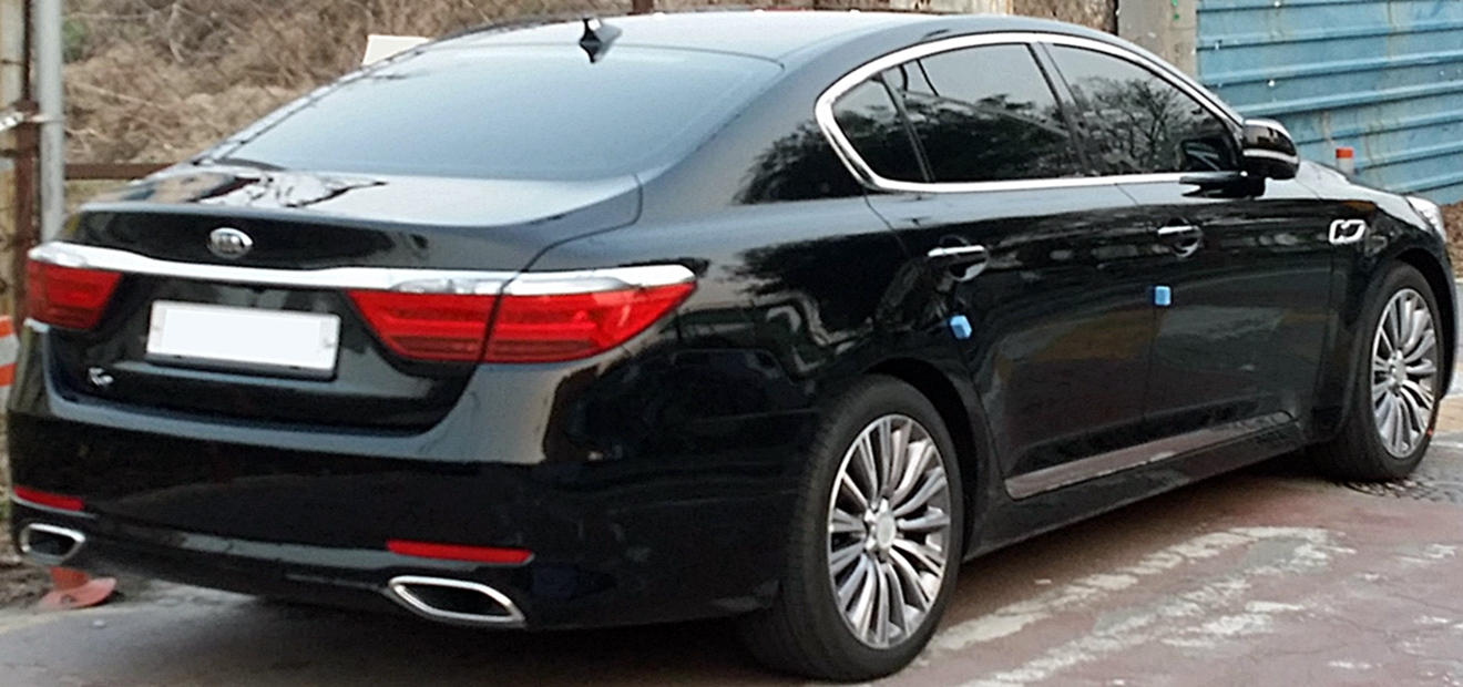 Kia The New K9